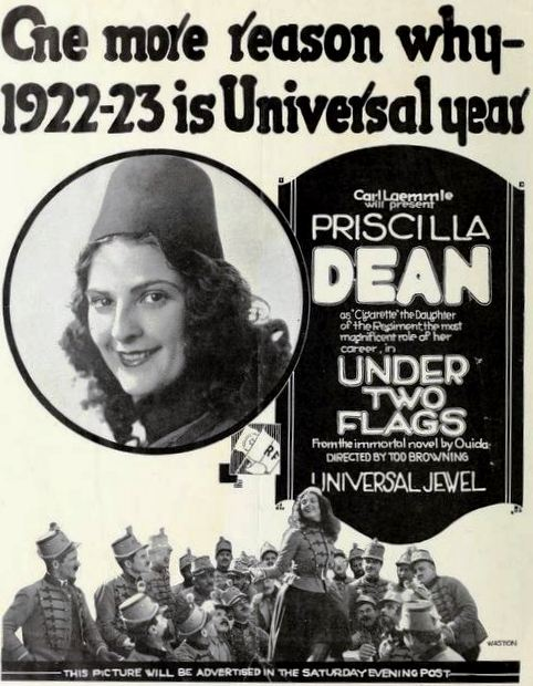 Ad for the American film Under Two Flags (1922) with Priscilla Dean, on the inside front cover of the August 26, 1922 Universal Weekly.